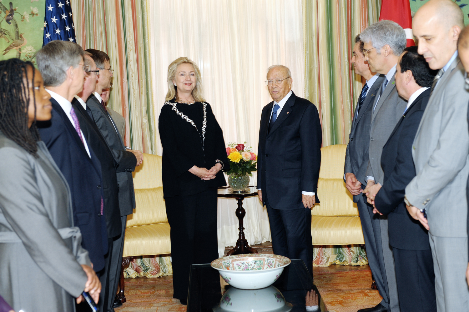 Hillary Clinton and Beji Caïd Essebsi